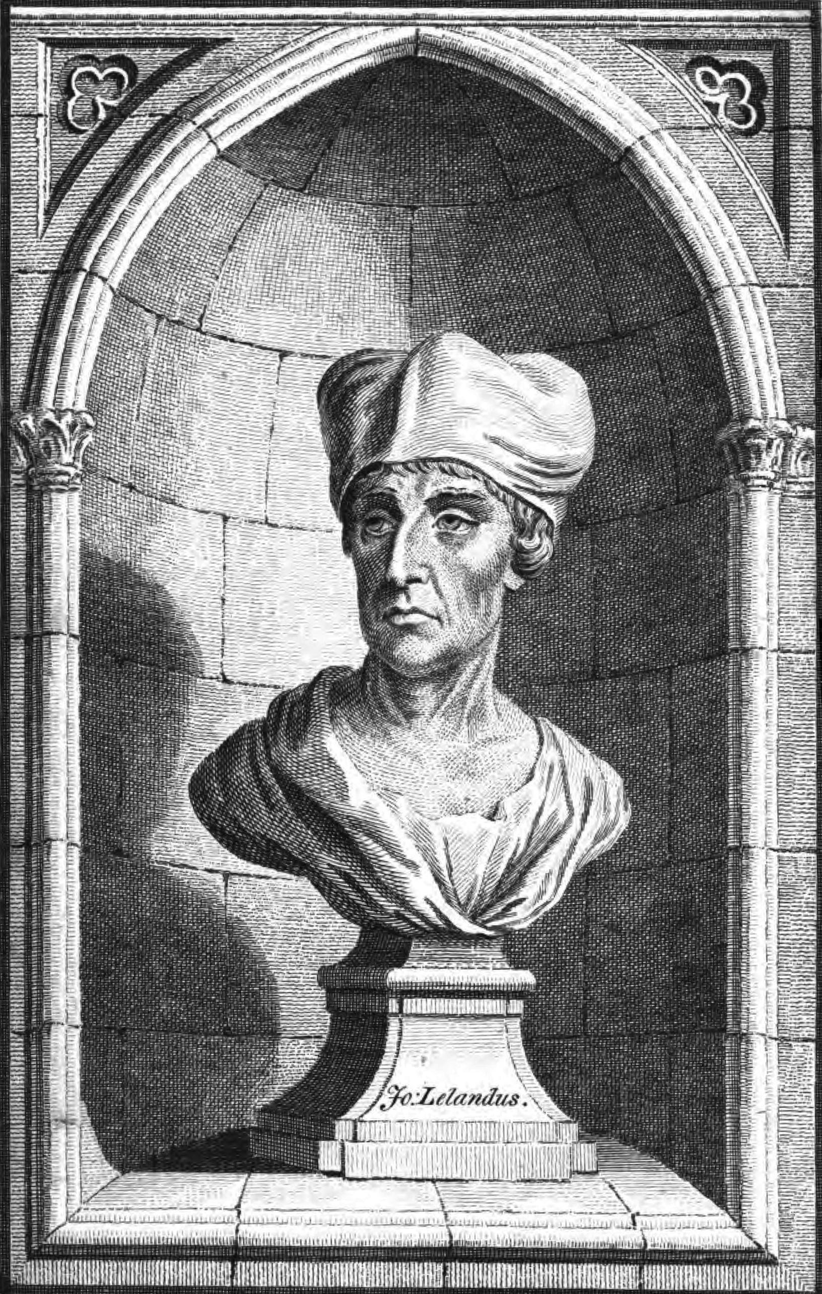 Line engraving by C. Grignion, purportedly taken from a bust of 16th-century antiquary John Leland at All Souls College, Oxford. Engraving printed in William Huddesford, ed. (1772). The Lives of those Eminent Antiquaries John Leland, Thomas Hearne, and Anthony à Wood. 2 volumes: volume 1. Oxford: Clarendon.